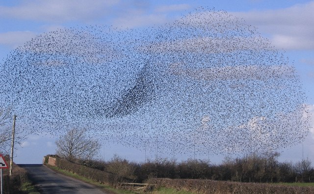 Rail Bridge Swarm of Starlings. The normal term would be a flock of starlings but this is not so usual.